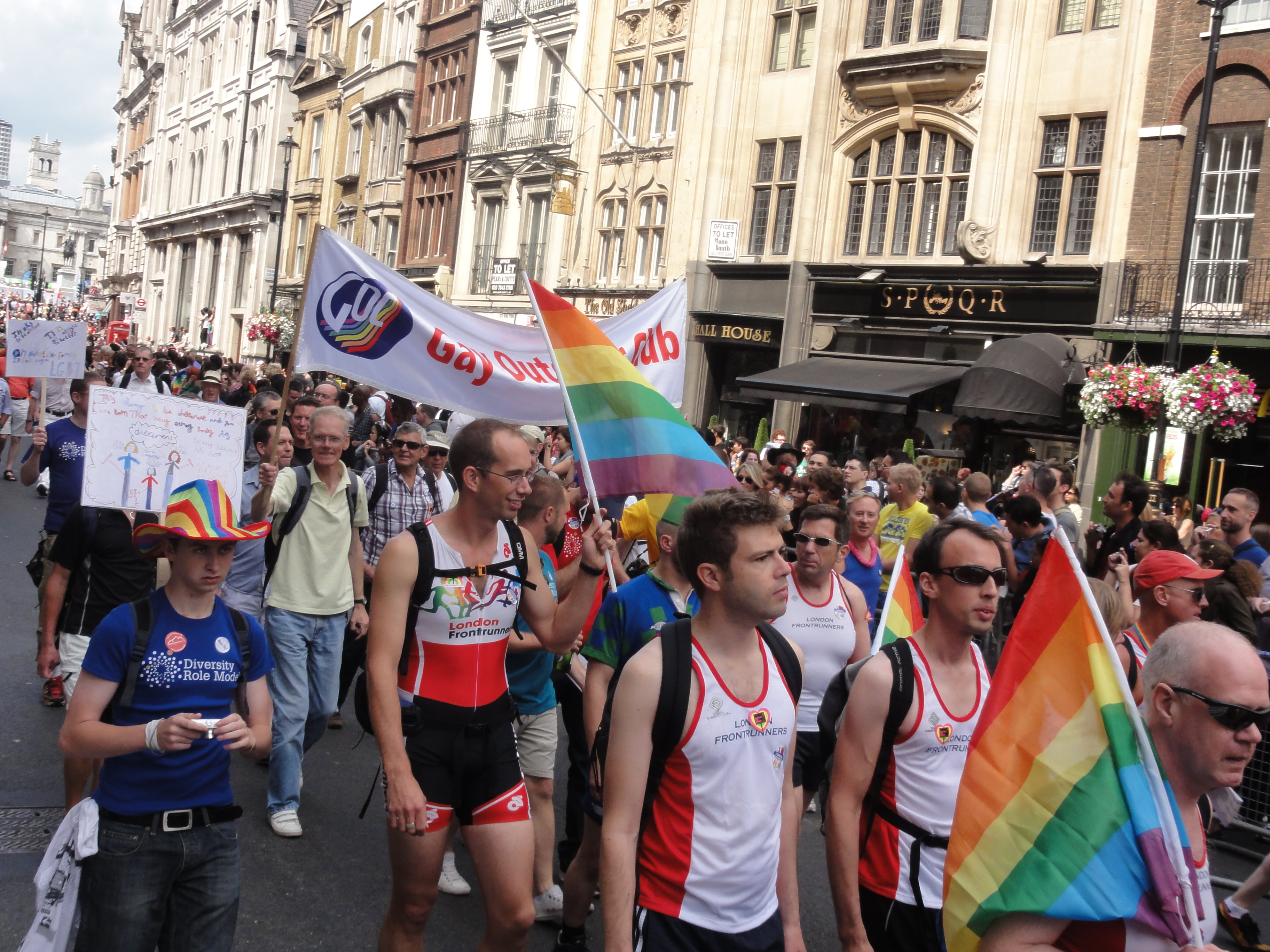 Pride London 2011, near Whitehall.